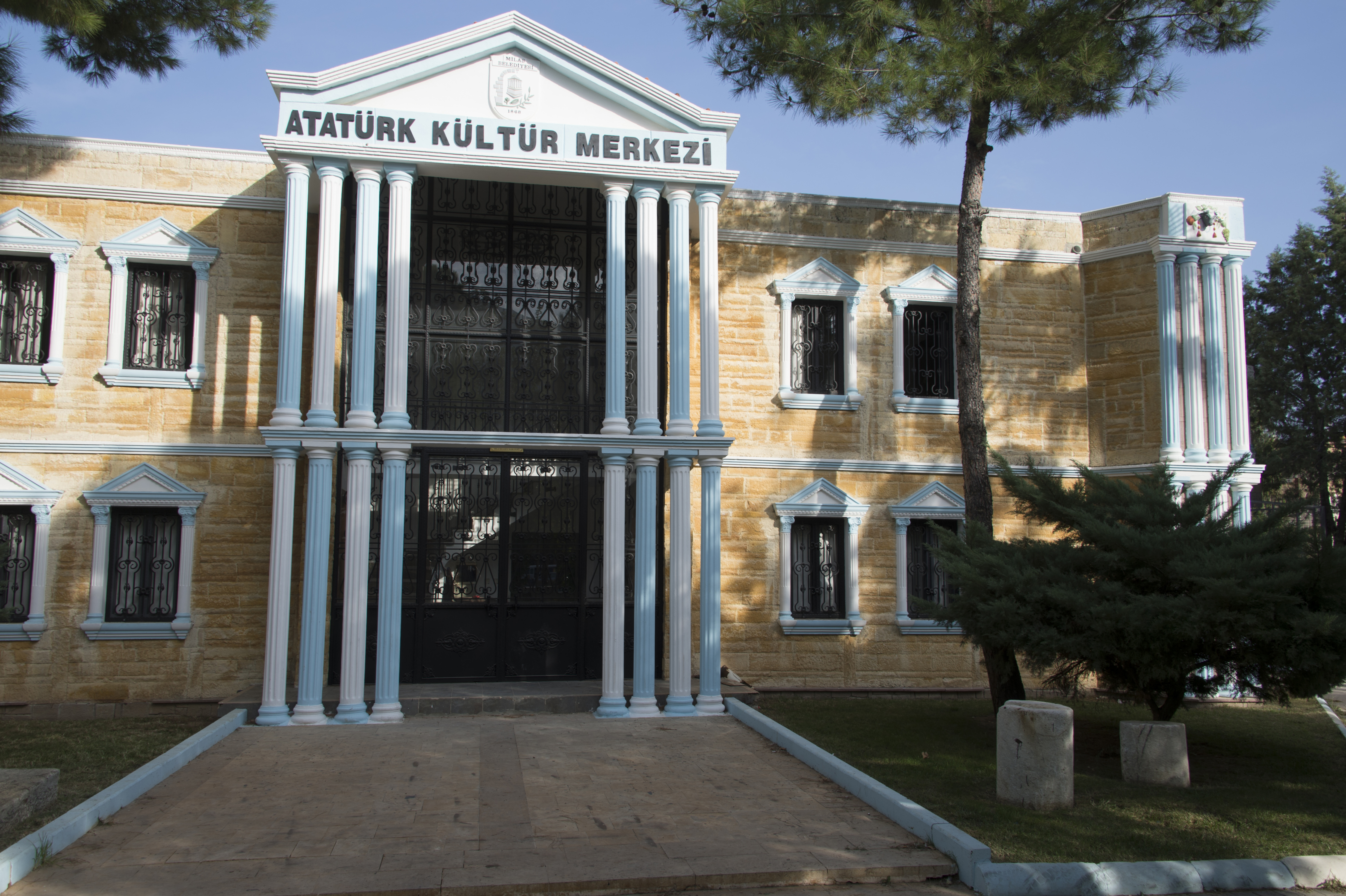 Curious but effective architecture.